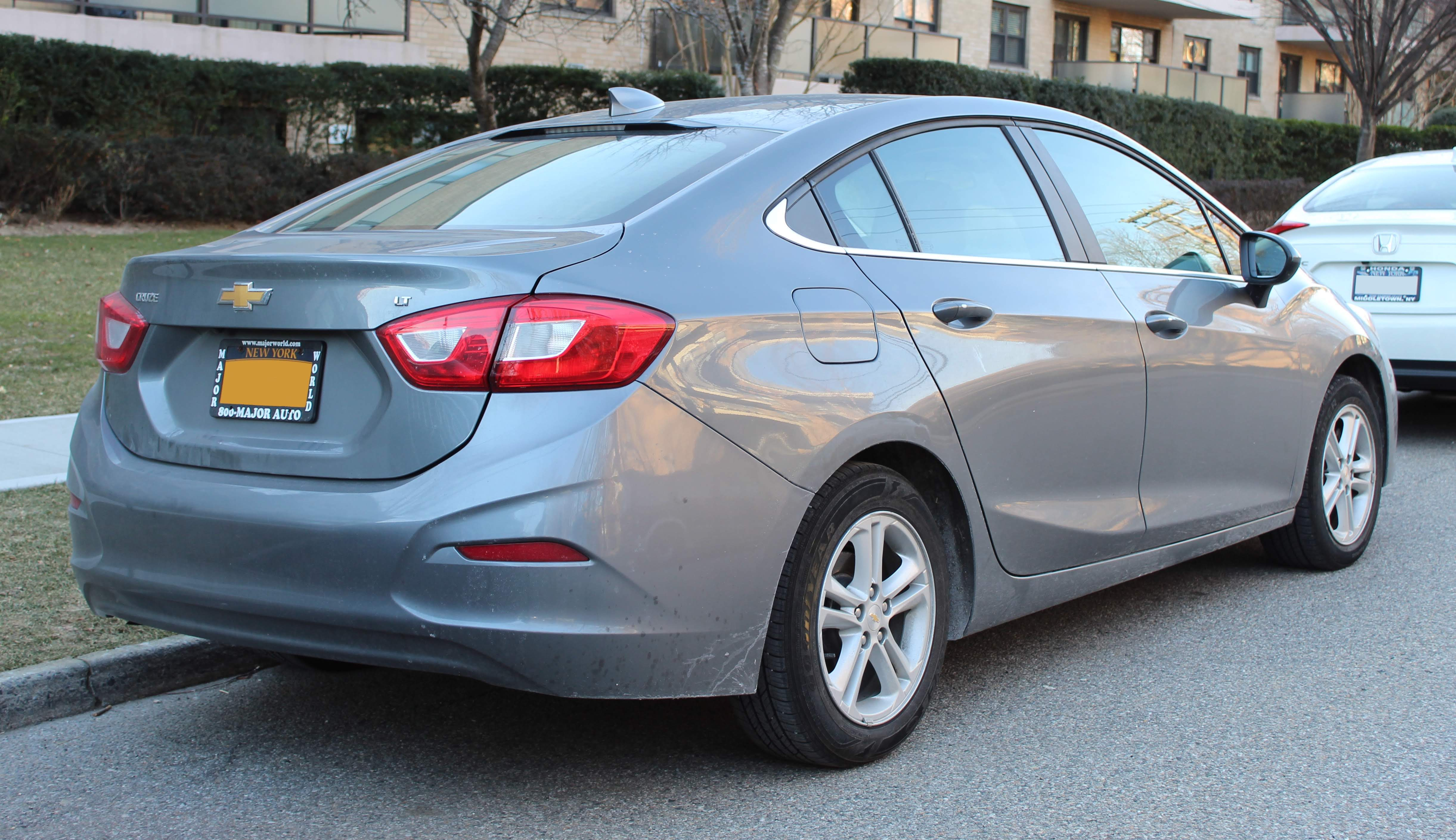 Photographed in Great Neck, New York, USA